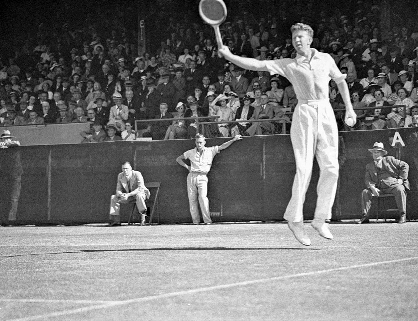 American tennis player Don Budge at the White City Tennis Club in Sydney, Australia